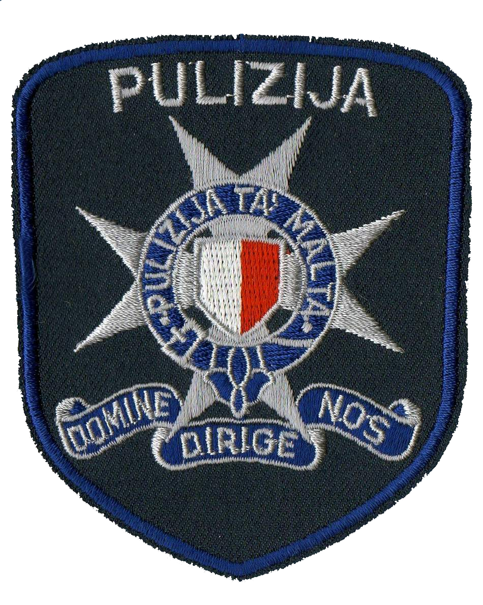 The Malta Police Force Patch